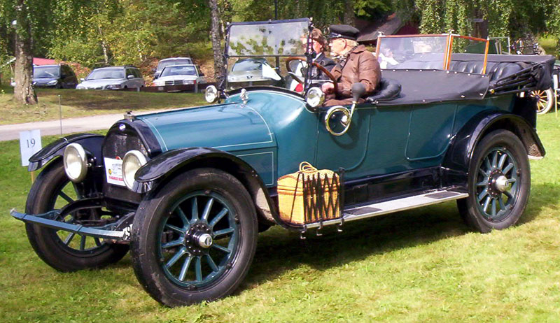 Overland Model 82 Touring 1915